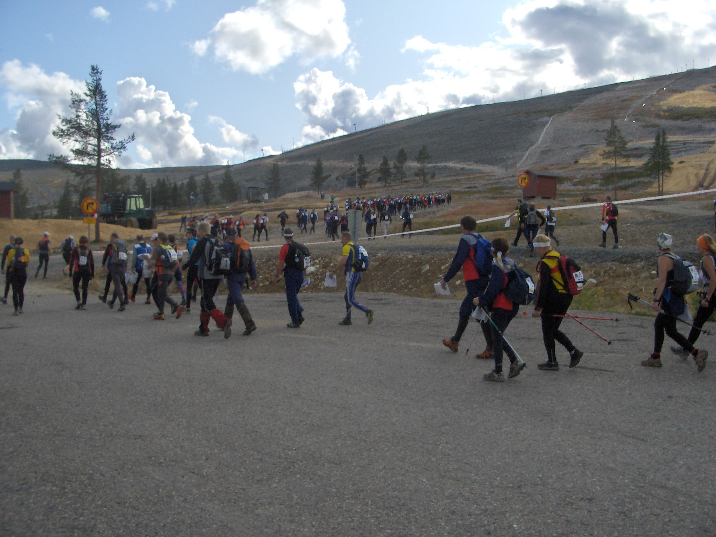 European Rogaining Championship 2009 in Yllästunturi, Finland